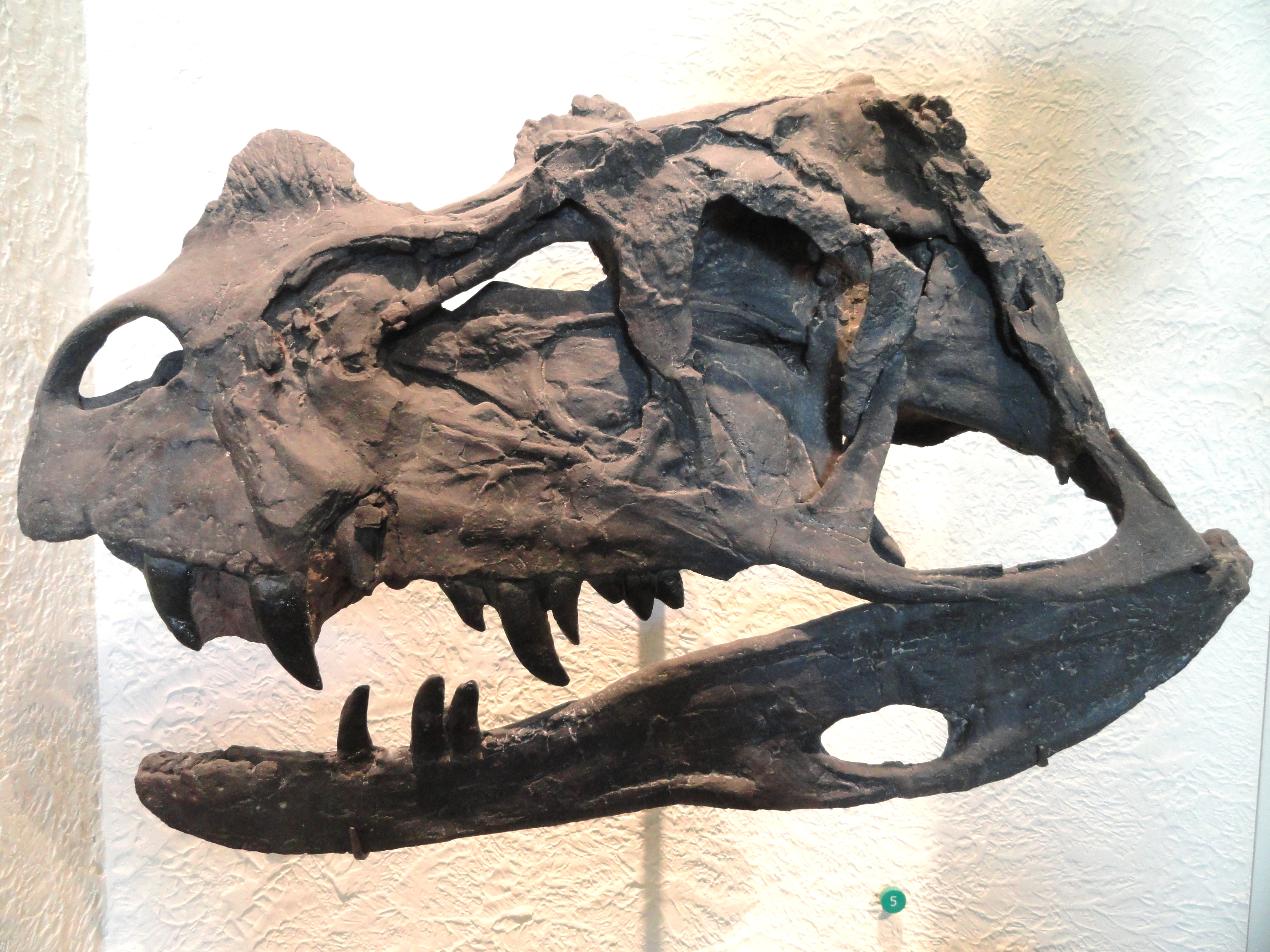 Exhibit in the fossil collection of the American Museum of Natural History, Manhattan, New York City, New York, USA.